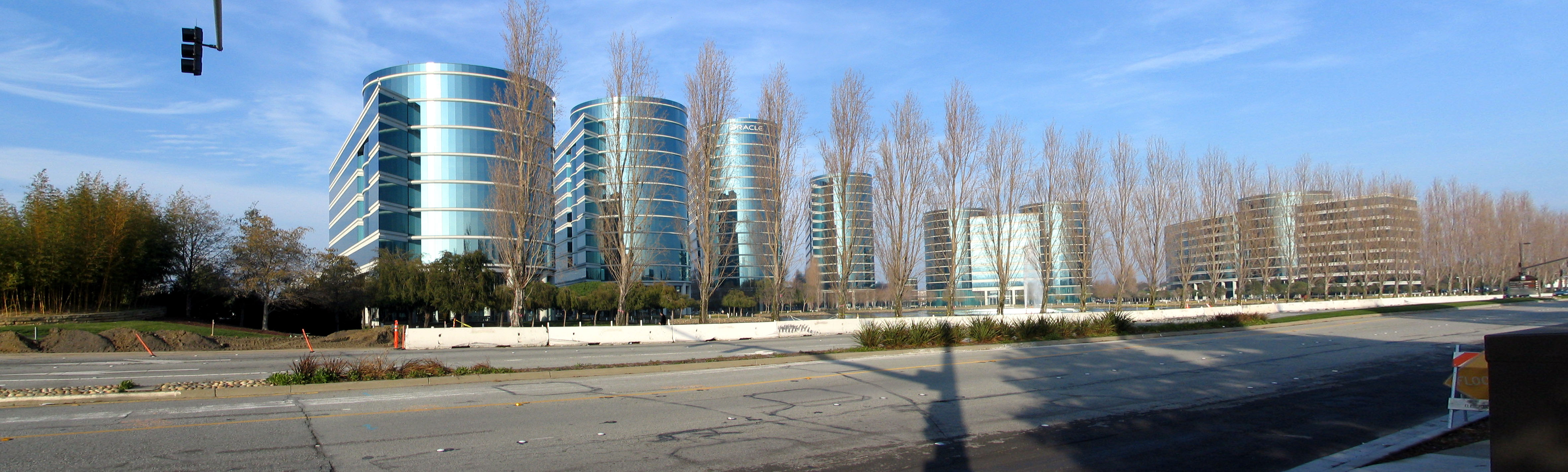 A panorama of Oracle headquarters, fronted by Ralston Avenue / Marine World Parkway.